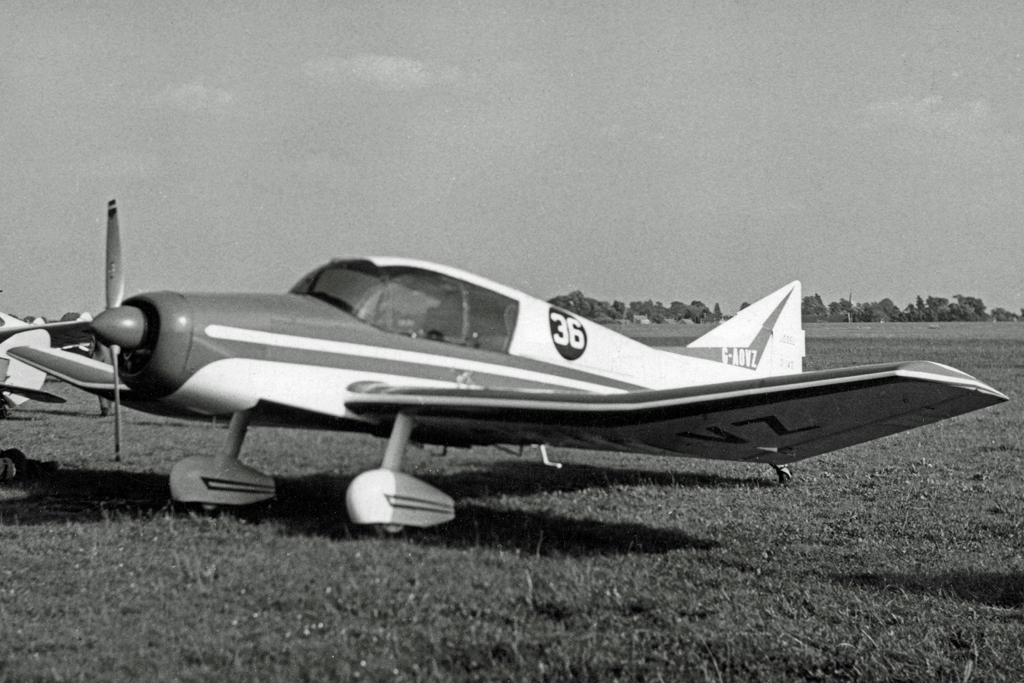 SAN Jodel D.140 G-AOVZ at Cranfield Airfield in 1960